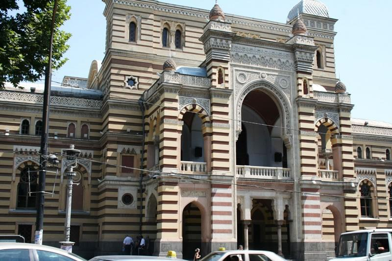 Opera House, Tbilisi.